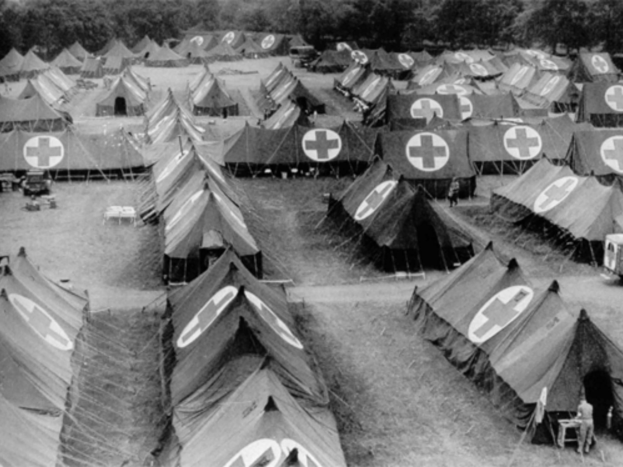 Field Hospitals